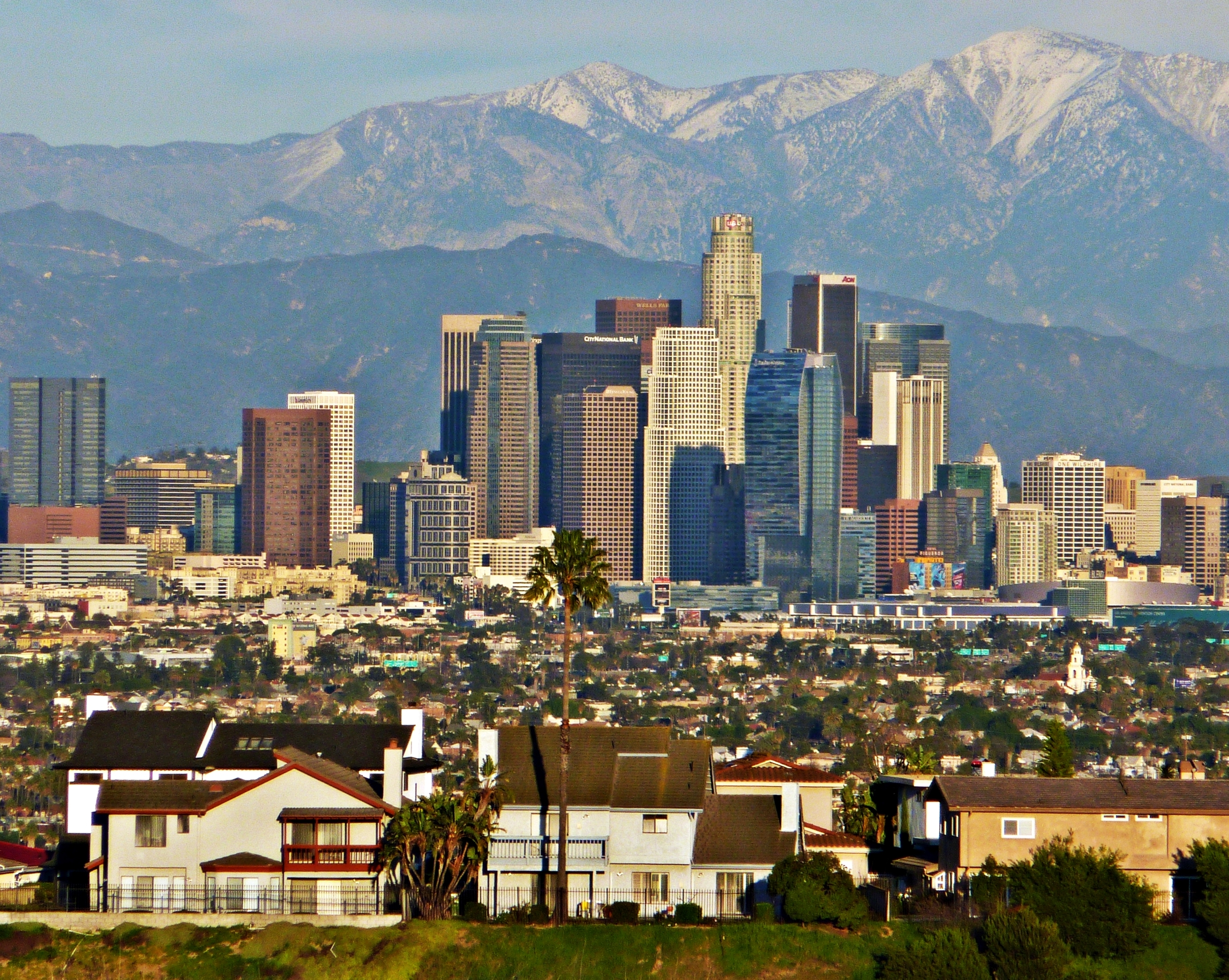 View from Kenneth Hahn State Recreation Area